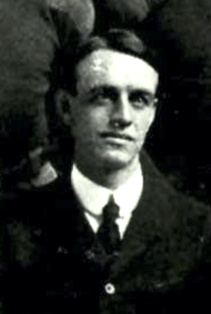 George B. Ward, from the New Hampshire football team photo, 1901